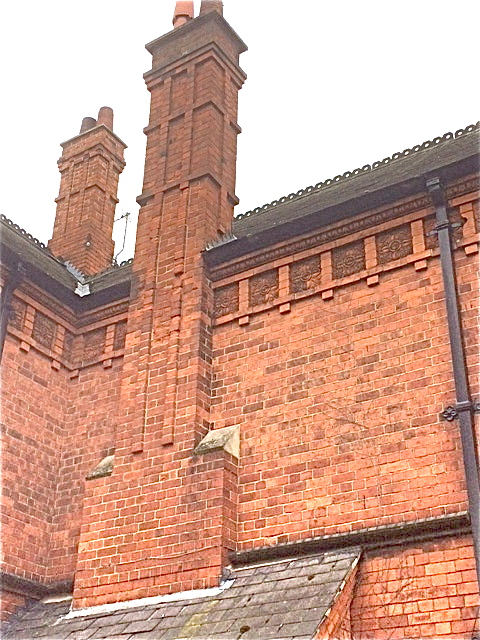 St Peter at Gowts Vicarage (1897-9)